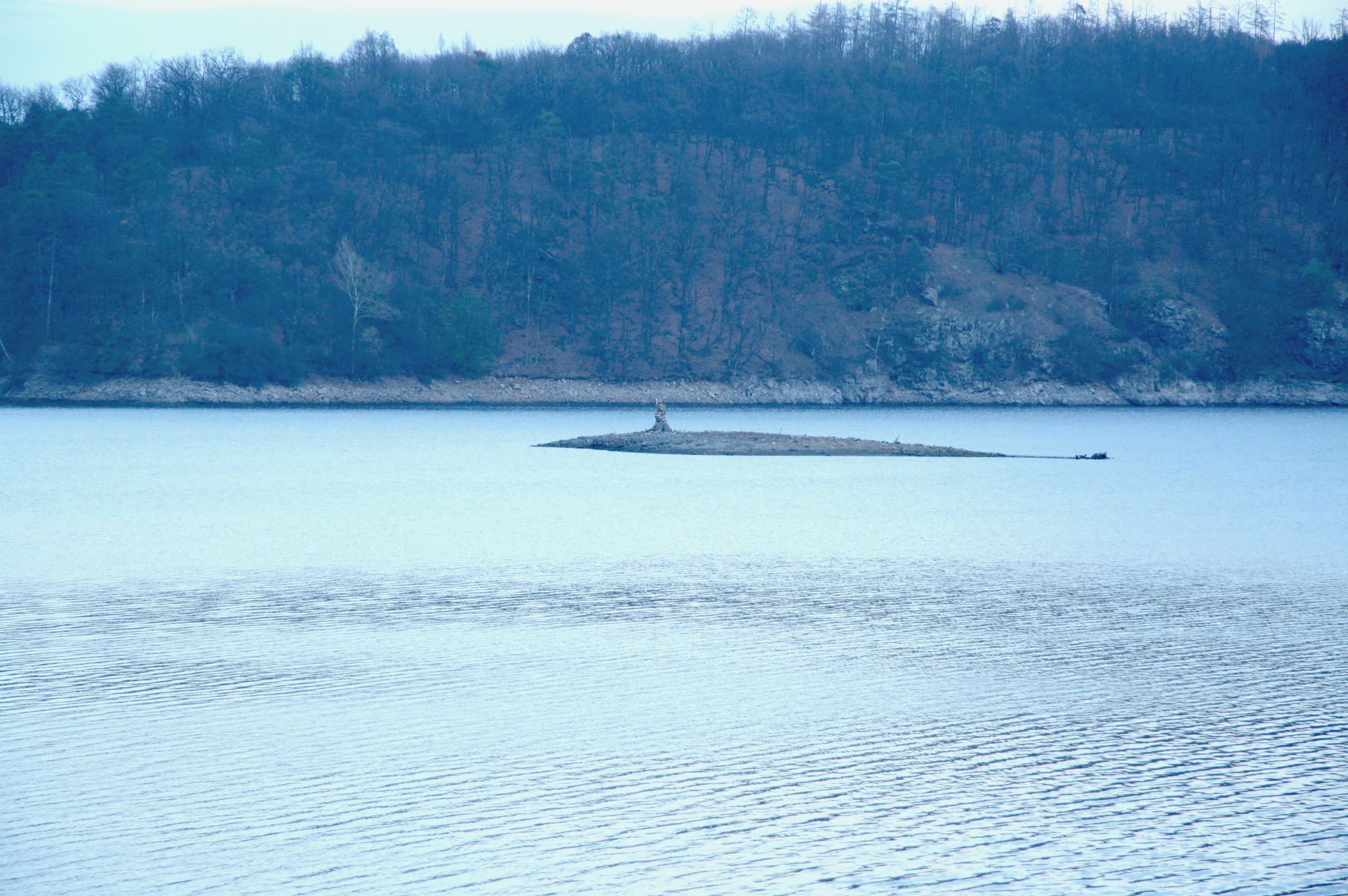 Dřínová hora castle near Kramolín, Třebíč District.